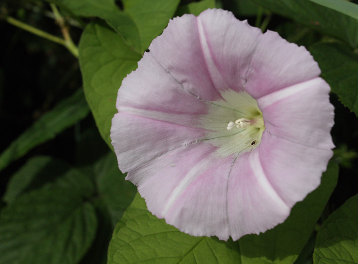 Calystegia pulchra, photographed on the Cults Old Railway walk in Aberdeen. Photographed on 16072009.